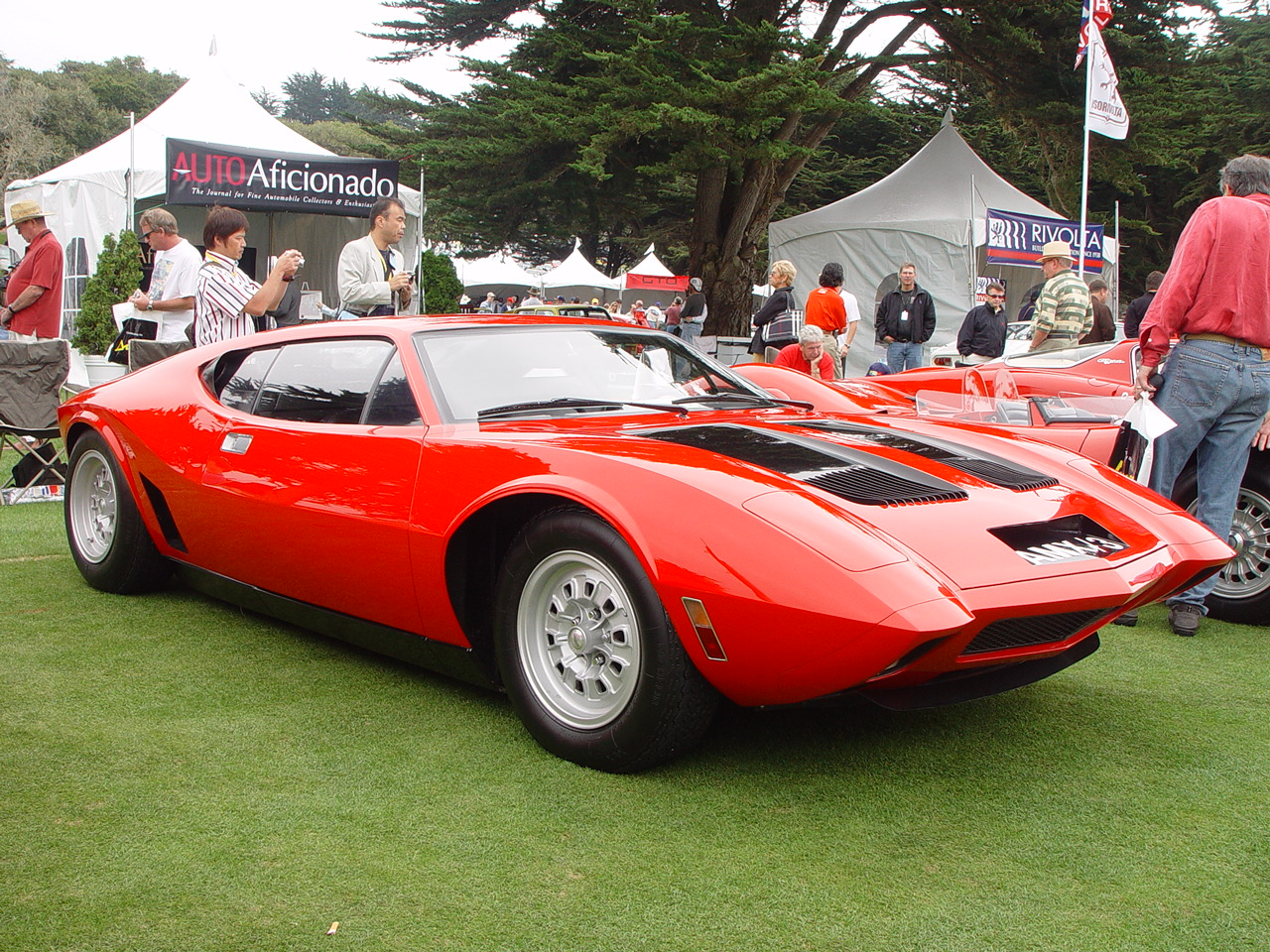 AMC AMX/3. Photograph taken at 2004 Concorso Italiano.